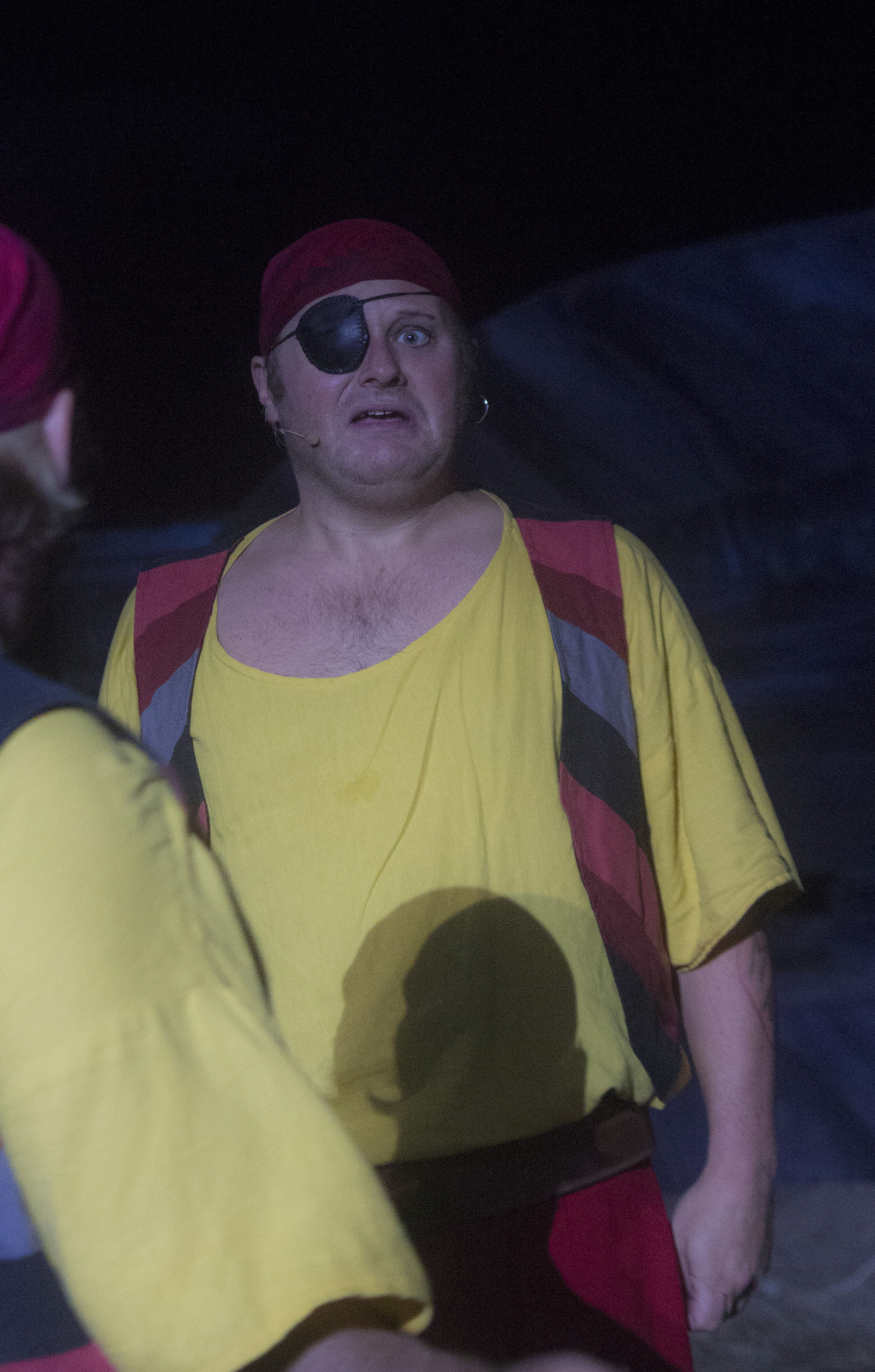 Frank Ole Sætrang as Pysa Pirat in Kaptein Sabeltann og Den Forheksede Øya